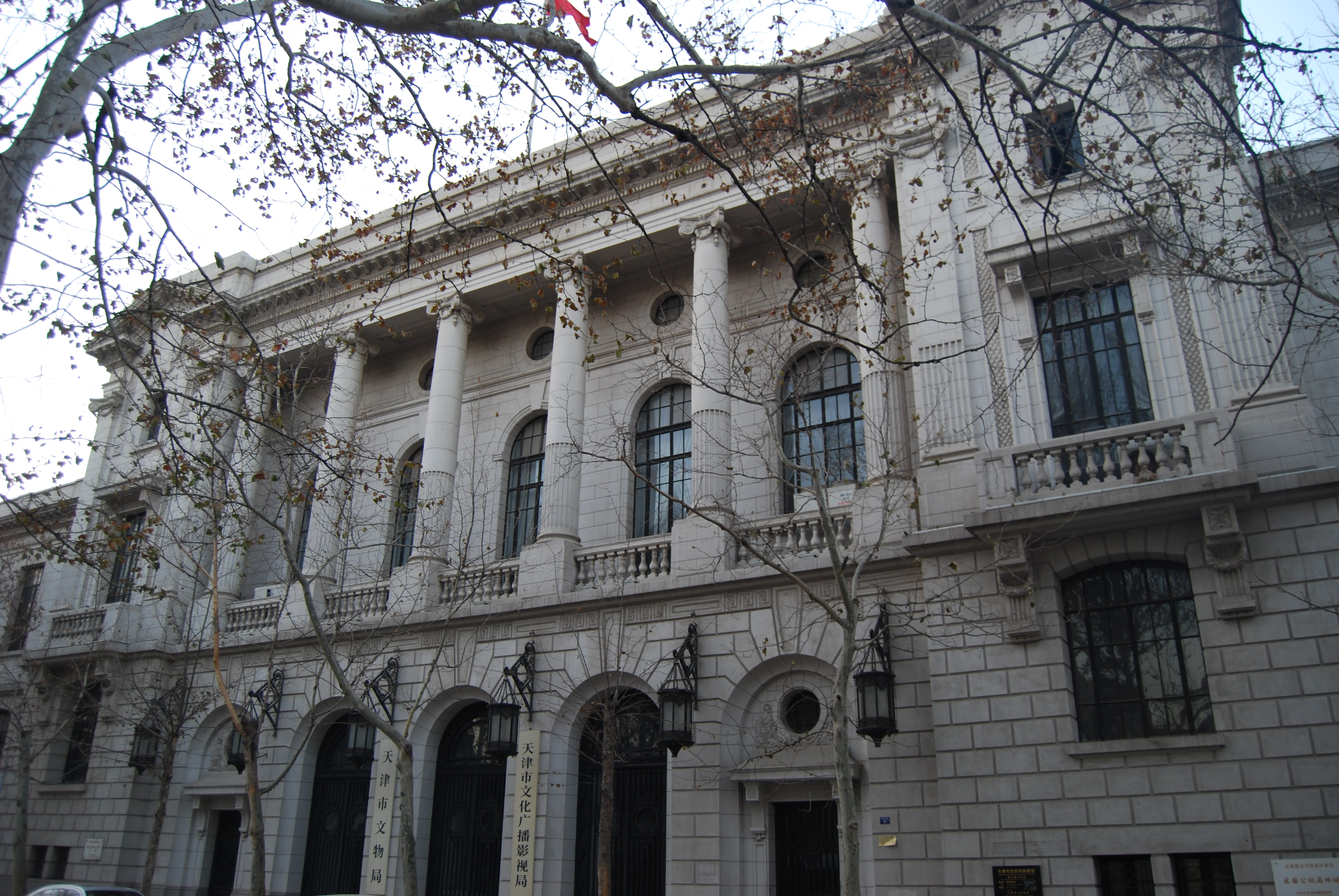 Former Municipal Board of the French Concession